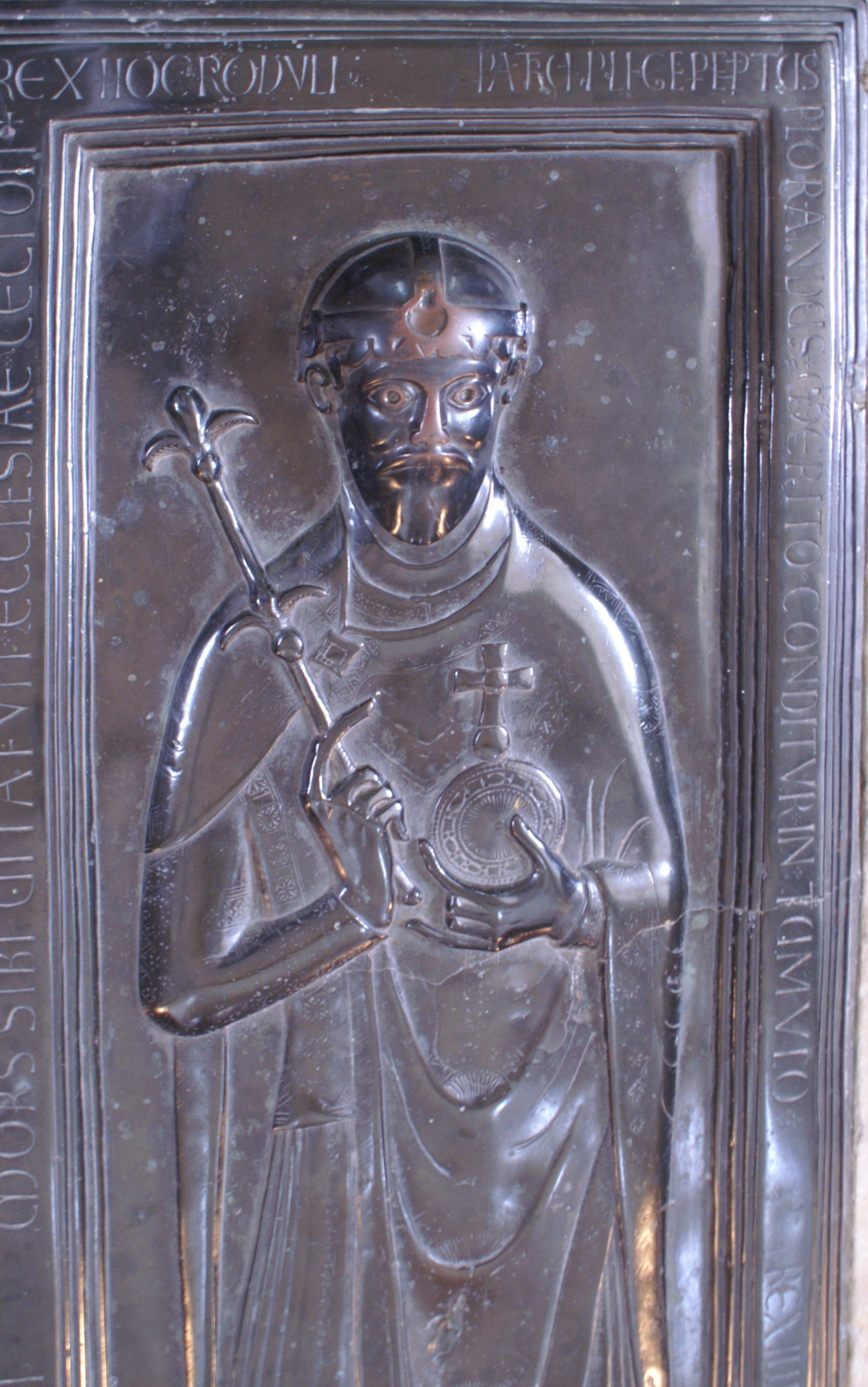 Grave plate of the anti-king Rudolf of Swabia in Merseburg Cathedral. It is the oldest bronze grave slab in Central Europe. It was once covered with gold and precious stones.